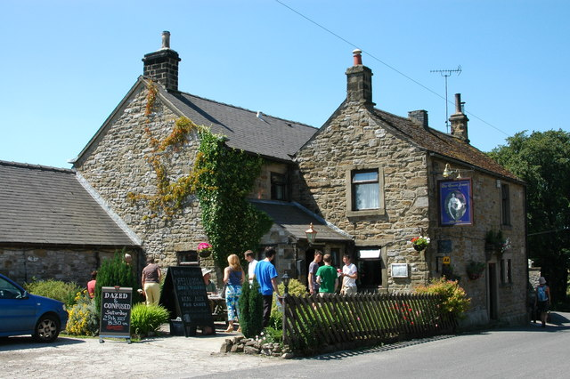 The Queen Anne at Gt Hucklow